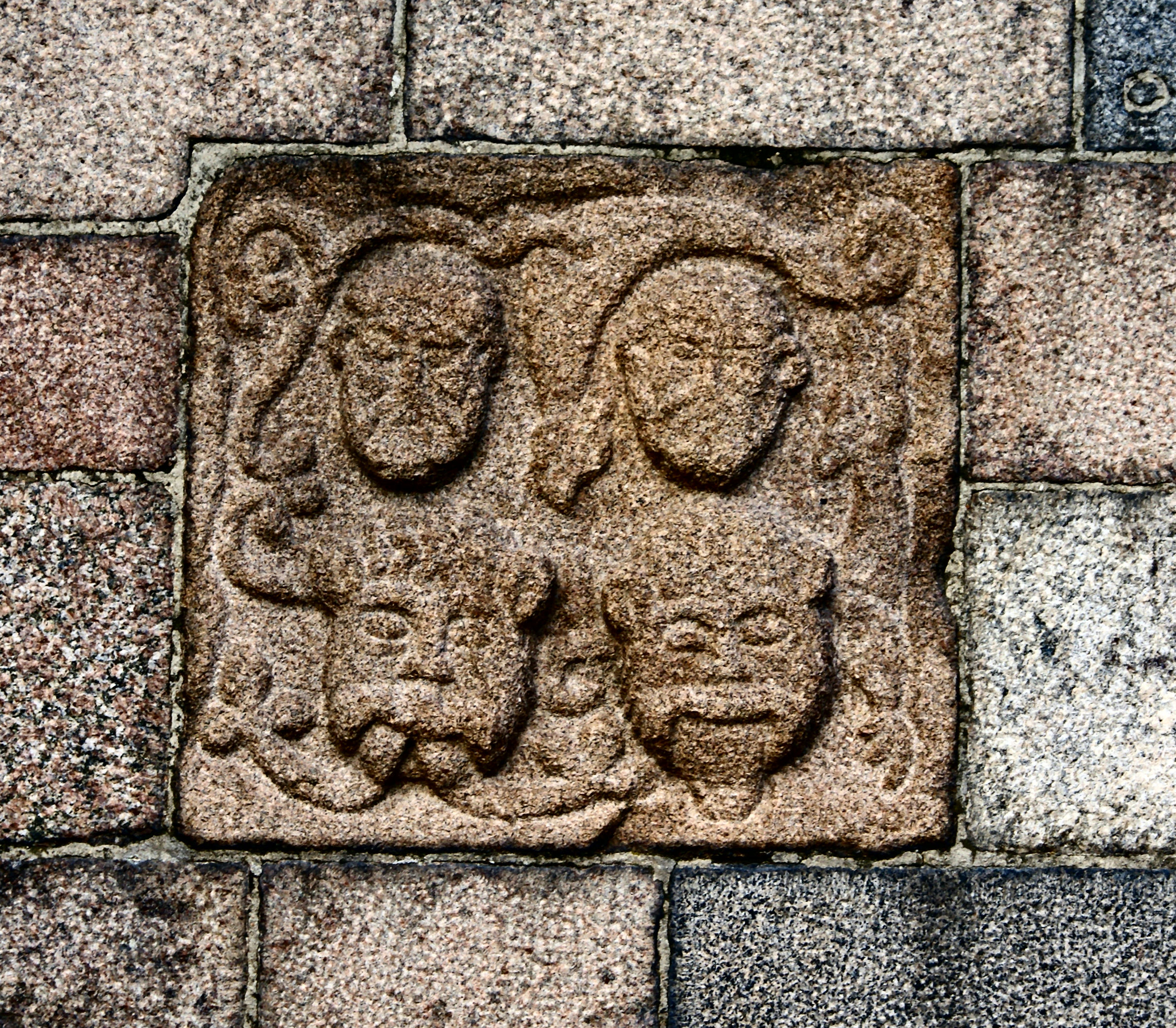 Church of Vestervig, Denmark